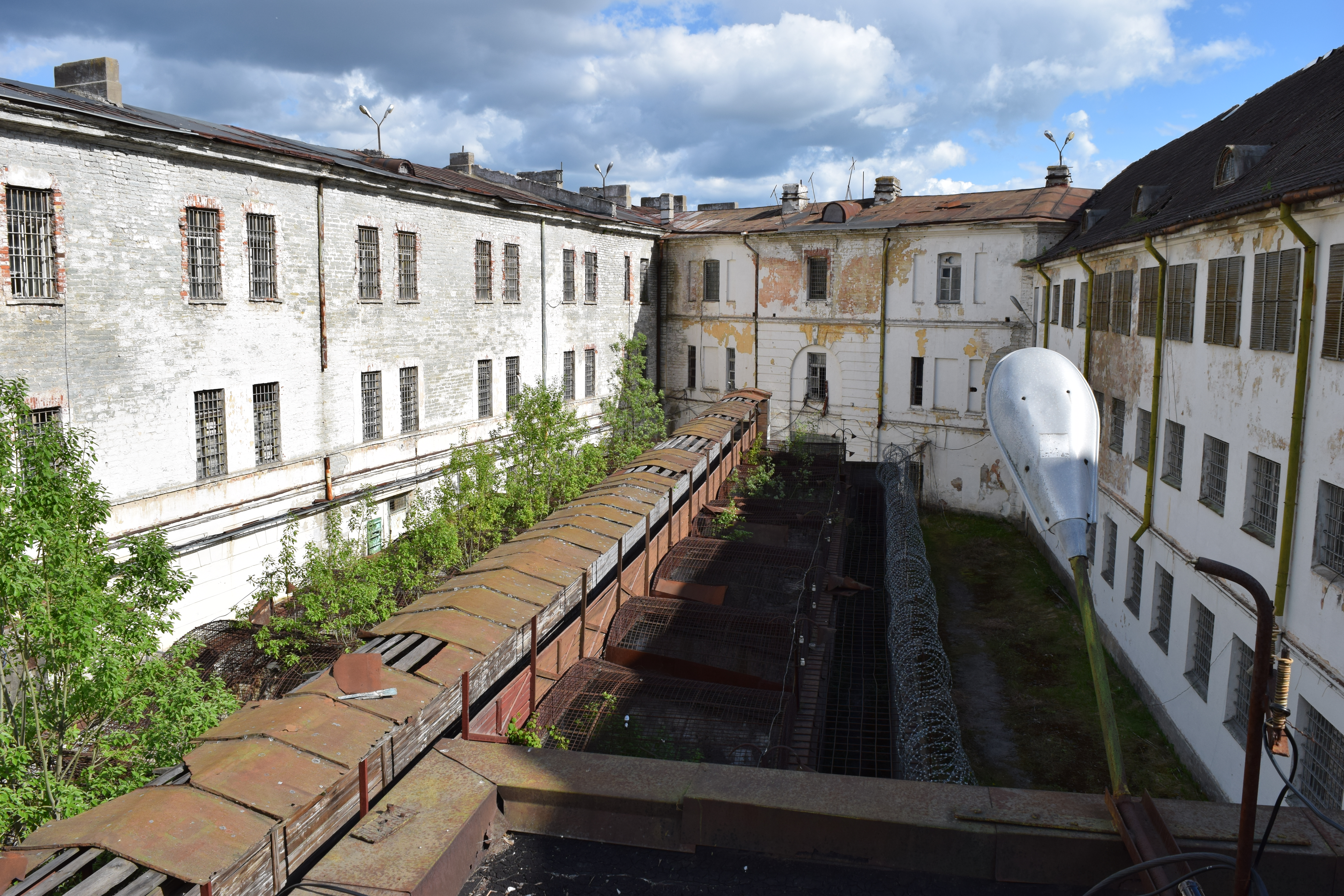 Kalamaja, Tallinn, Estonia